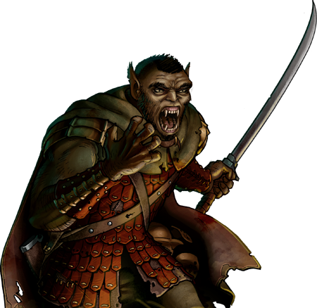 A warrior orc, character of the game Battle for Wesnoth